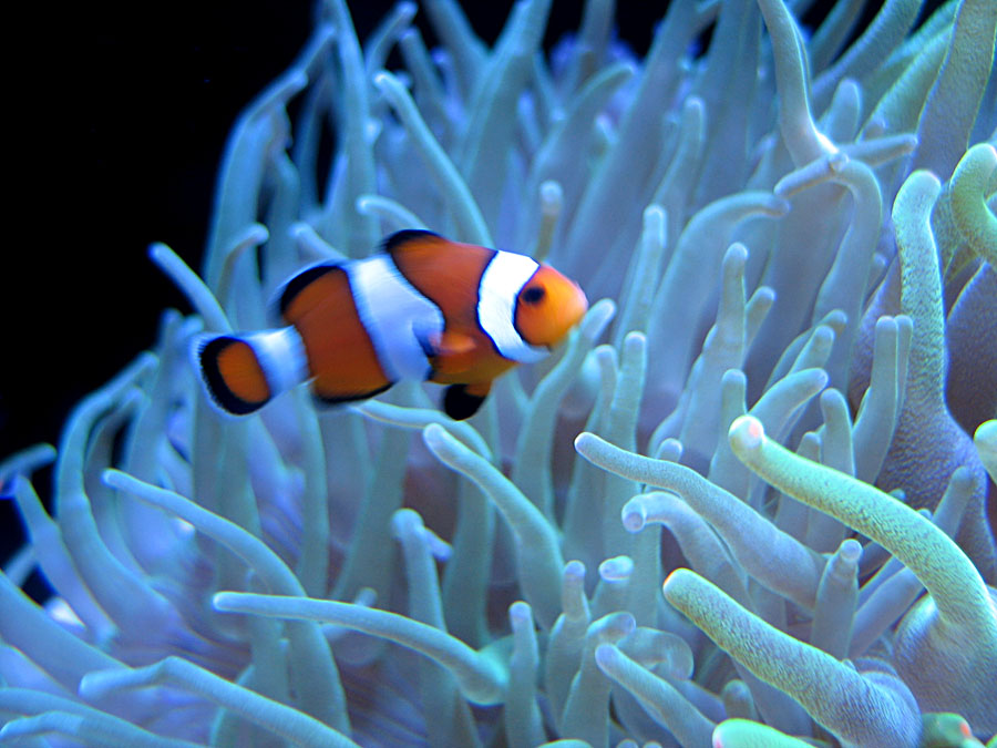 A clown fish